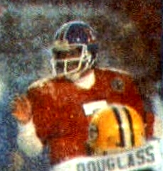 Denver Broncos quarterback John Elway pictured in an offensive play against the Green Bay Packers during an October 15, 1984 home game at Mile High Stadium.